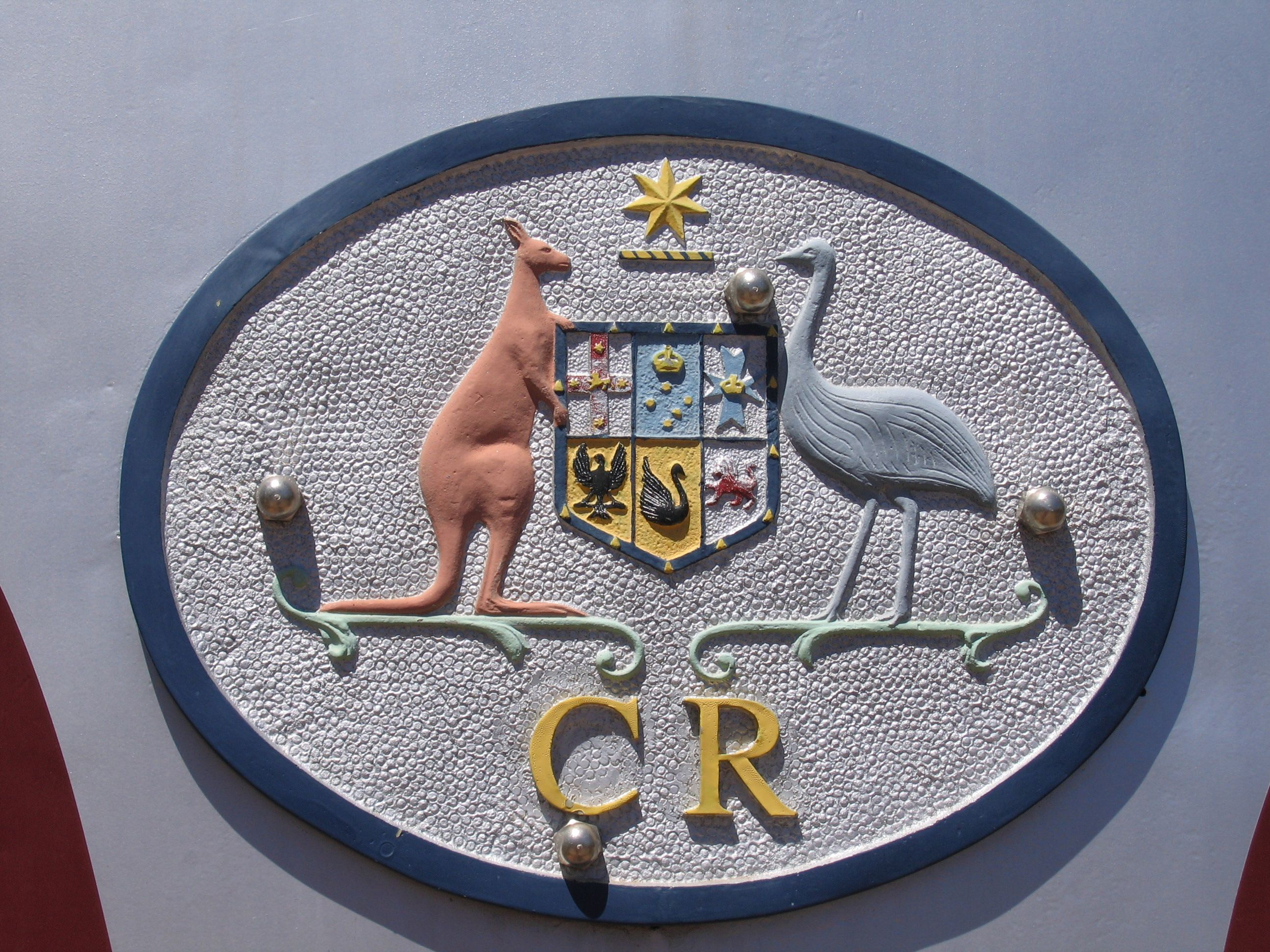 Heraldics of Commonwealth Railways